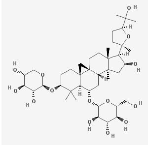 Astragaloside IV